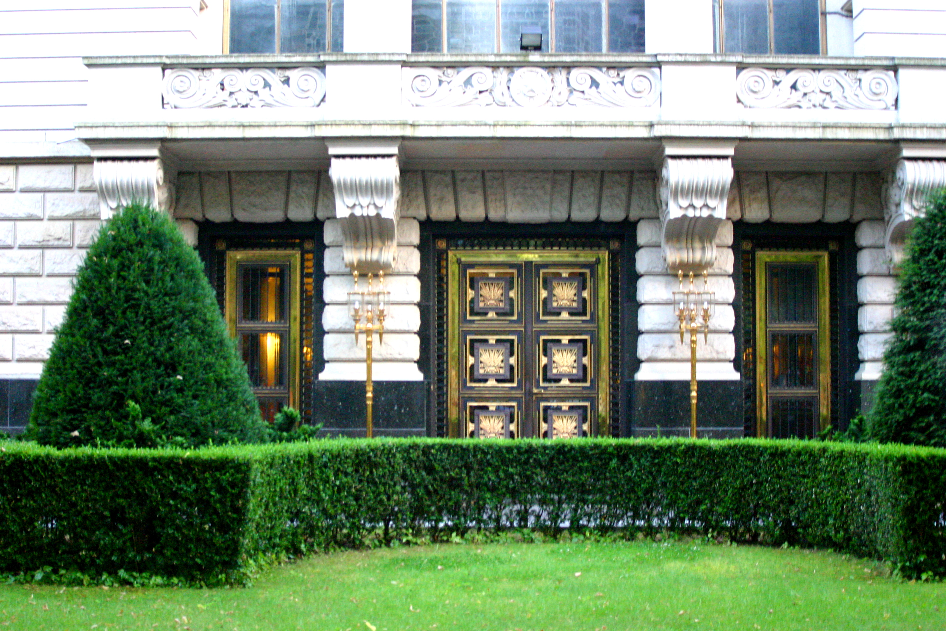 Portal of the Russian Embassy in Berlin